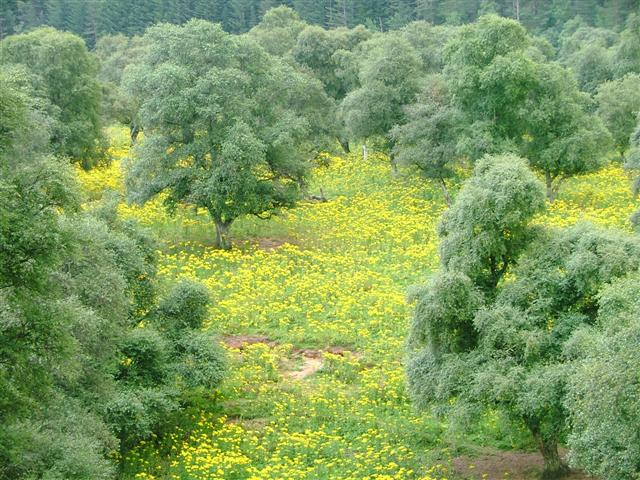 Semi Open Ragwort Woods. On the banks of the Dee